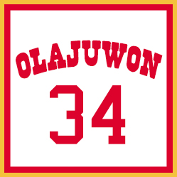 Hakeem Olajuwon retired jersey